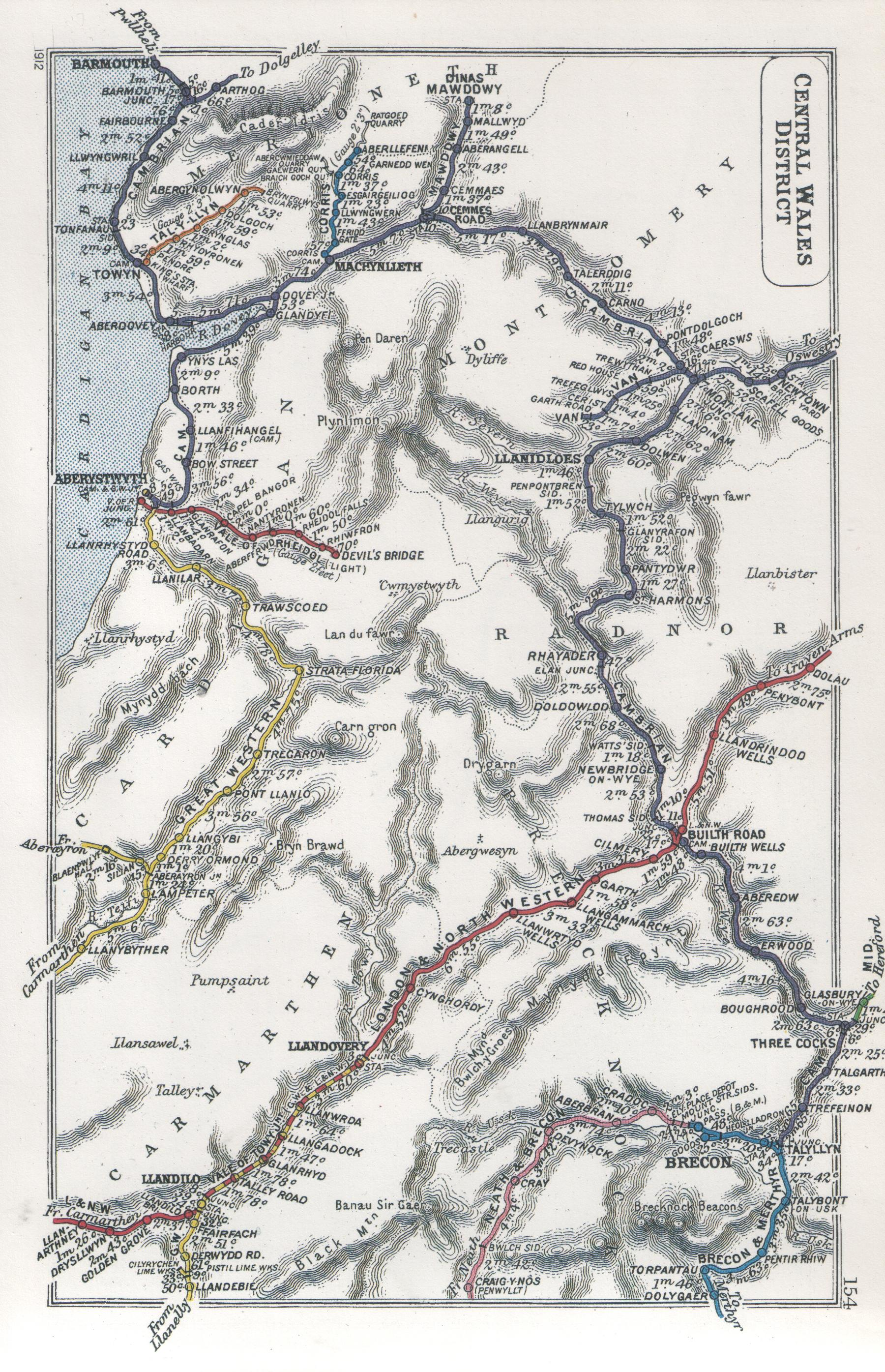 Railway Junctions in Central Wales pre grouping